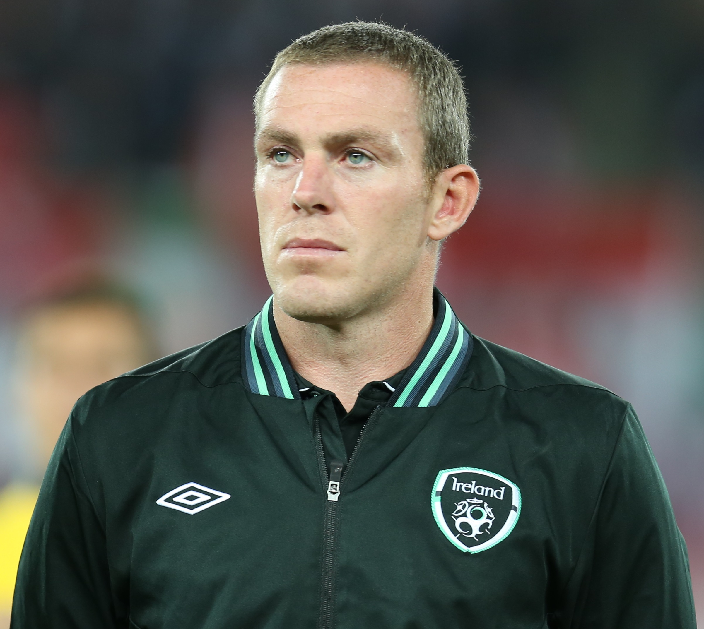 2014 FIFA World Cup qualification (UEFA), Group C: Republic of Ireland national football team at 10. September 2013 before the match against the Austria national football team (0:1) in the Ernst-Happel-Stadion in Vienna. Here: Richard Dunne, irish defender The making of this work was supported by Wikimedia Austria. For other files made with the support of Wikimedia Austria, please see the category Supported by Wikimedia Österreich.